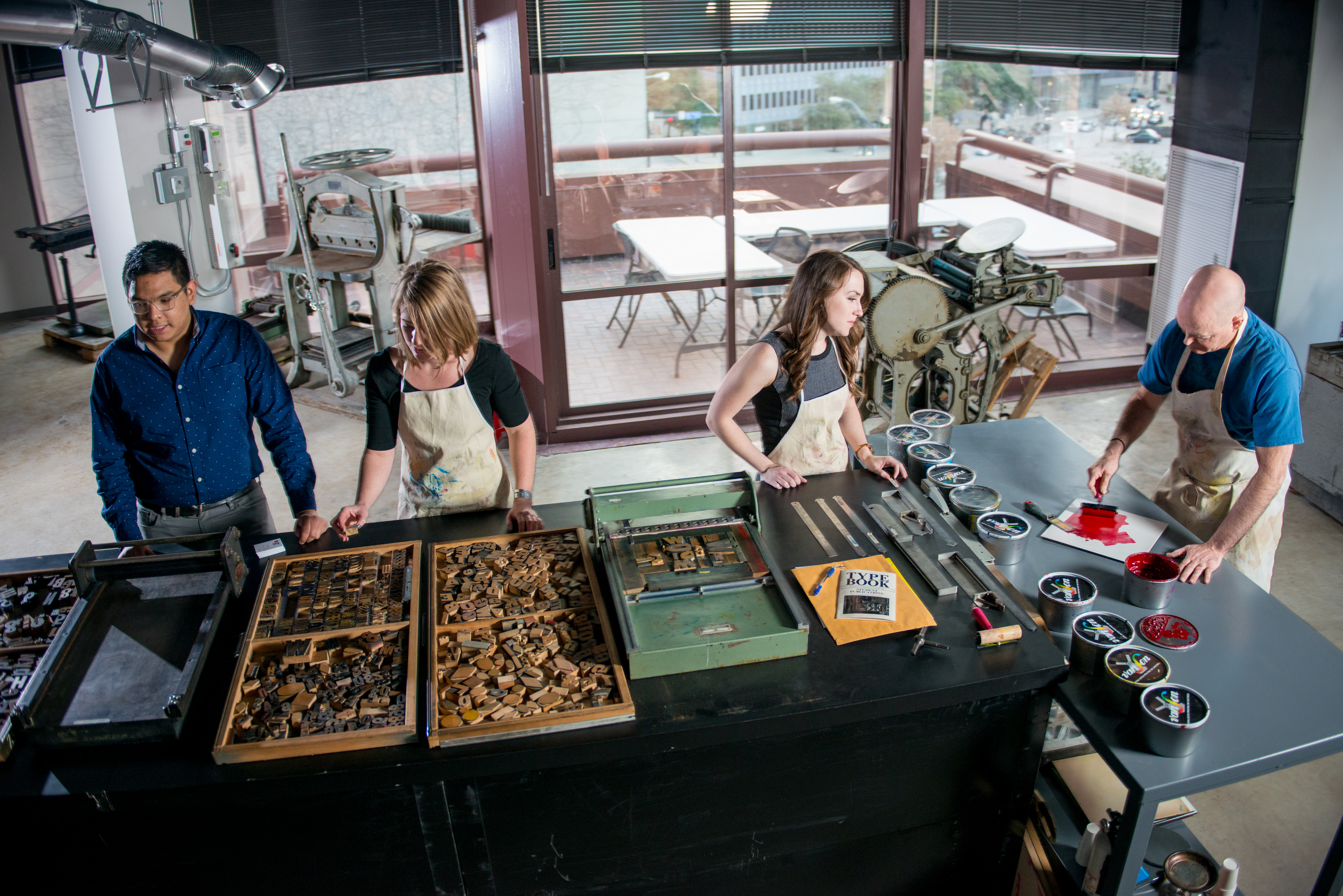 _15020-Virgil Scott Letterpress Exhibit 4540.jpg Virgil Scott Letterpress Exhibit at Texas A&M University–Commerce